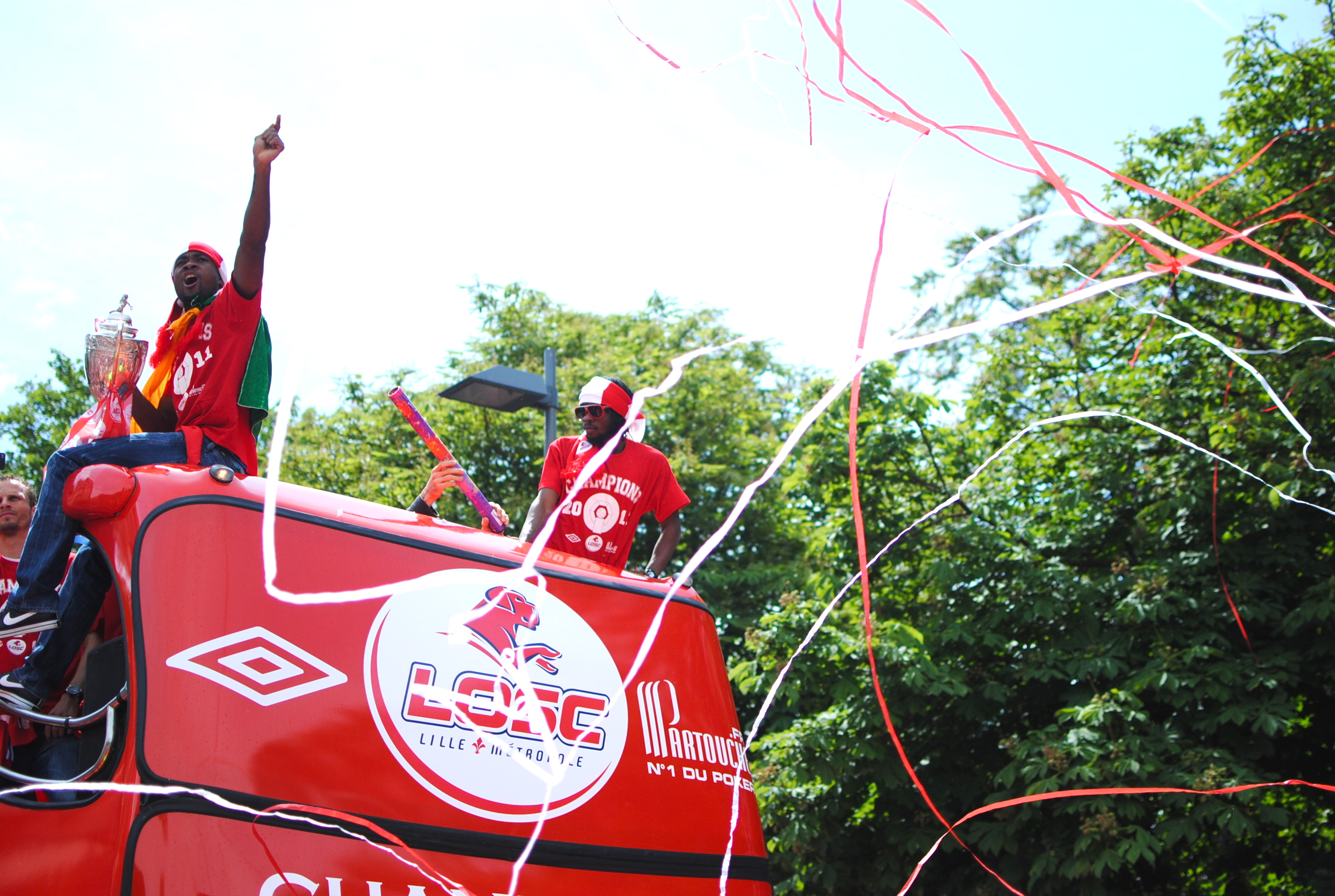 The team presents the French Cup to the fans with Captain Rio Mavuba.